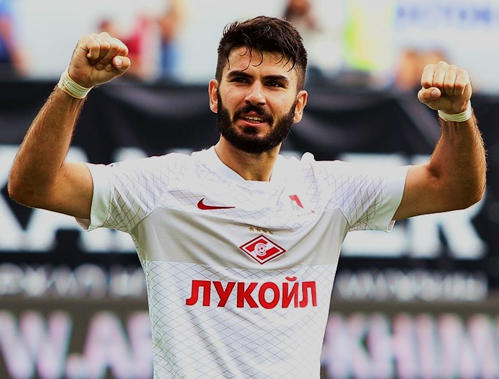 Serdar Tasci